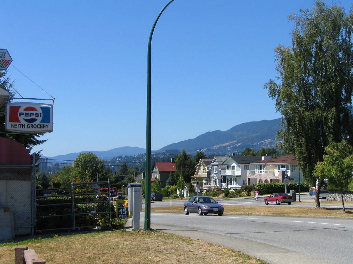 This image was created by me, Flying Penguin of Pacific Spirit Photography of Burnaby, BC, Canada.